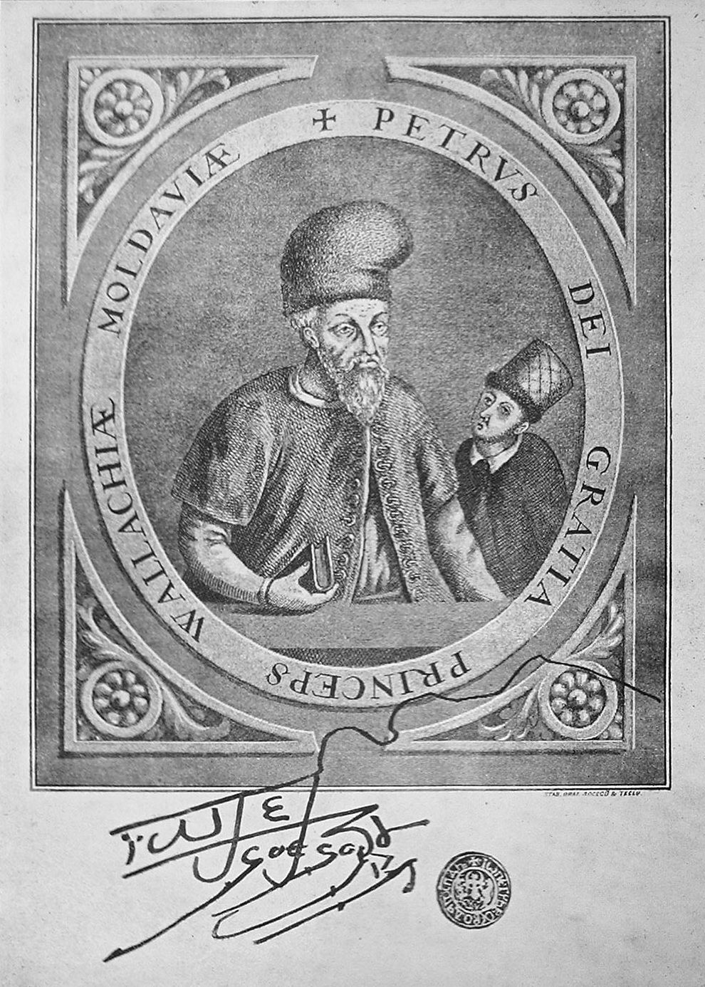 Petru Şchiopul and his son Ştefan.